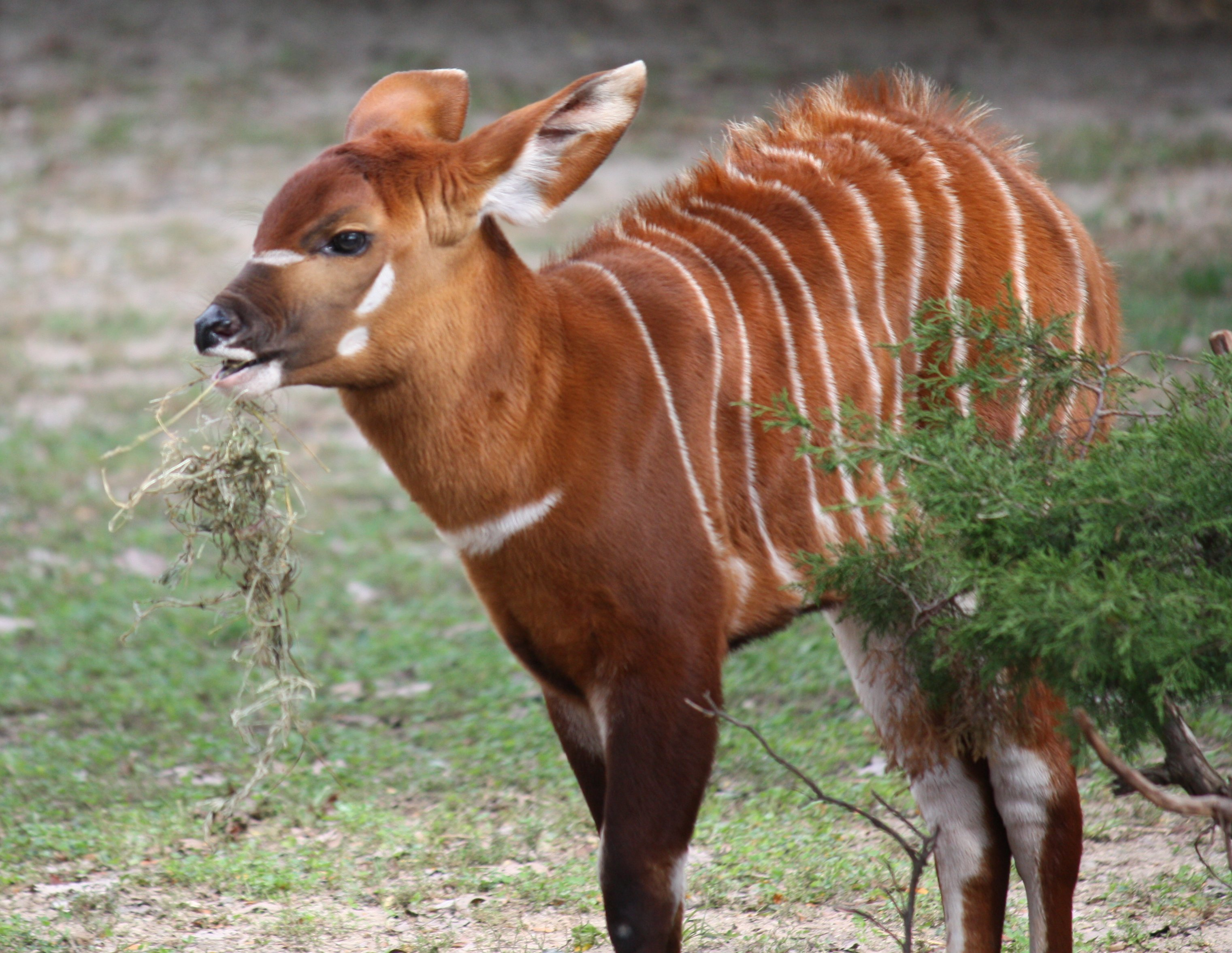 Juvenile Bongo Tragelaphus eurycerus isaaci at Louisville Zoo